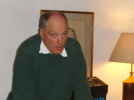 Terence Blacker (born February 5, 1948 near Hadleigh, Suffolk) is an English author, columnist, journalist, and publisher.